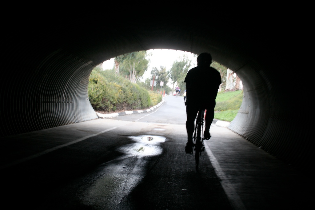 Tunnel on San Diego Creek Bike Trail in Irvine California